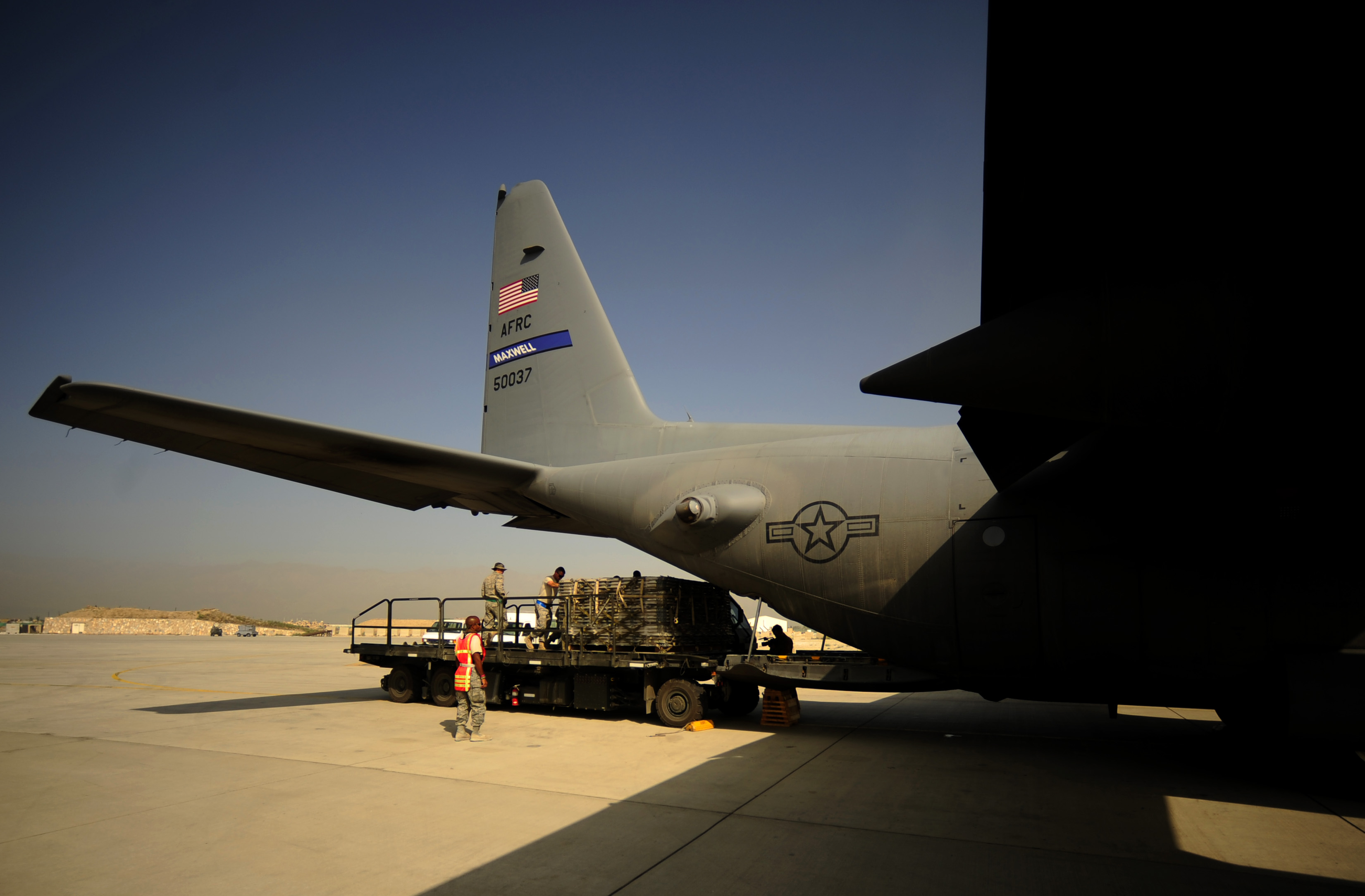 U.S. Airmen load aid and supplies onto a C-130H Hercules aircraft from the 746th Expeditionary Airlift Squadron in support of humanitarian relief efforts in Pakistan at Bagram Airfield, Afghanistan, Aug. 20, 2010.